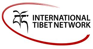 this is a logo for International Tibet Network